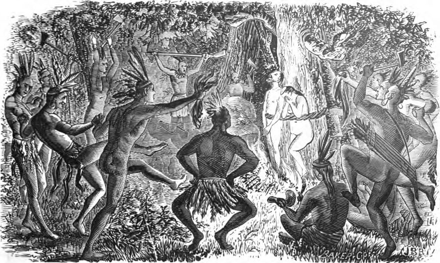 An artist's depiction of the 1832 execution by burning of James Sample and his wife Lucy Sample during the Black Hawk War.